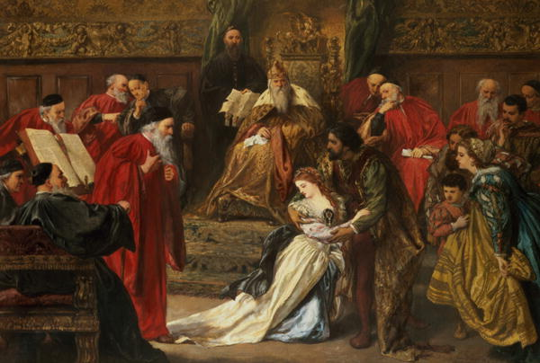 Cordelia in the Court of King Lear (1873) by Sir John-Gilber, Townley Hall Museum, Burnley